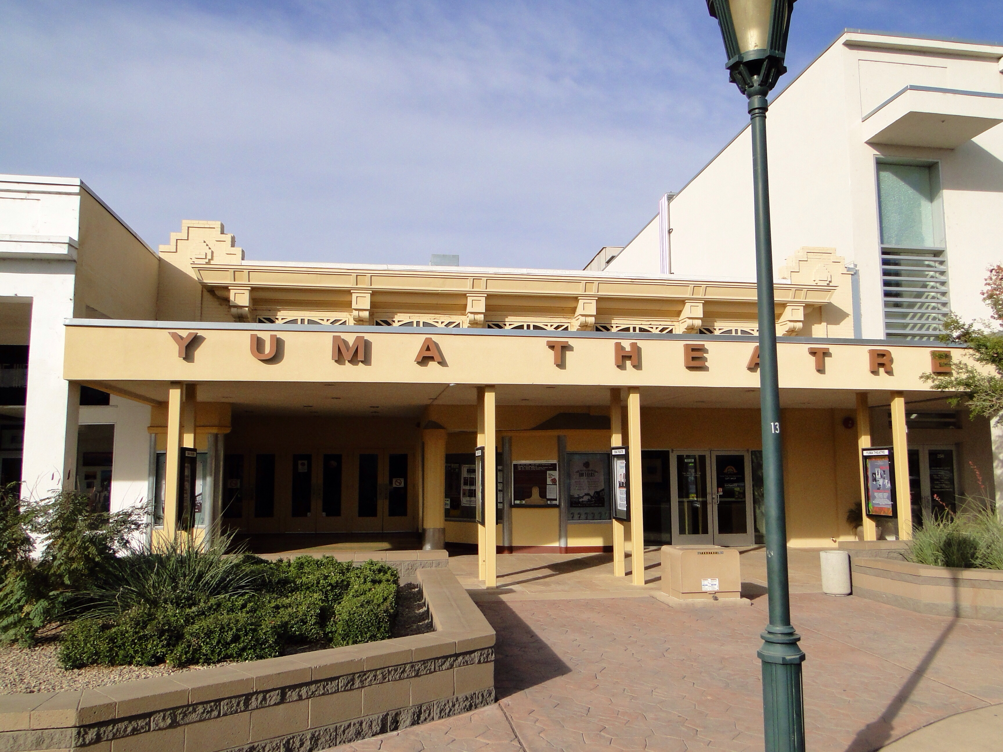 Yuma Theatre, 254 S. Main St., Yuma, Arizona